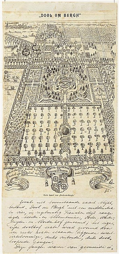 Map of the 17th c. estate Dool-om-Berg near Amersfoort with 19th c. annotations by A.M. Tromp van Holst